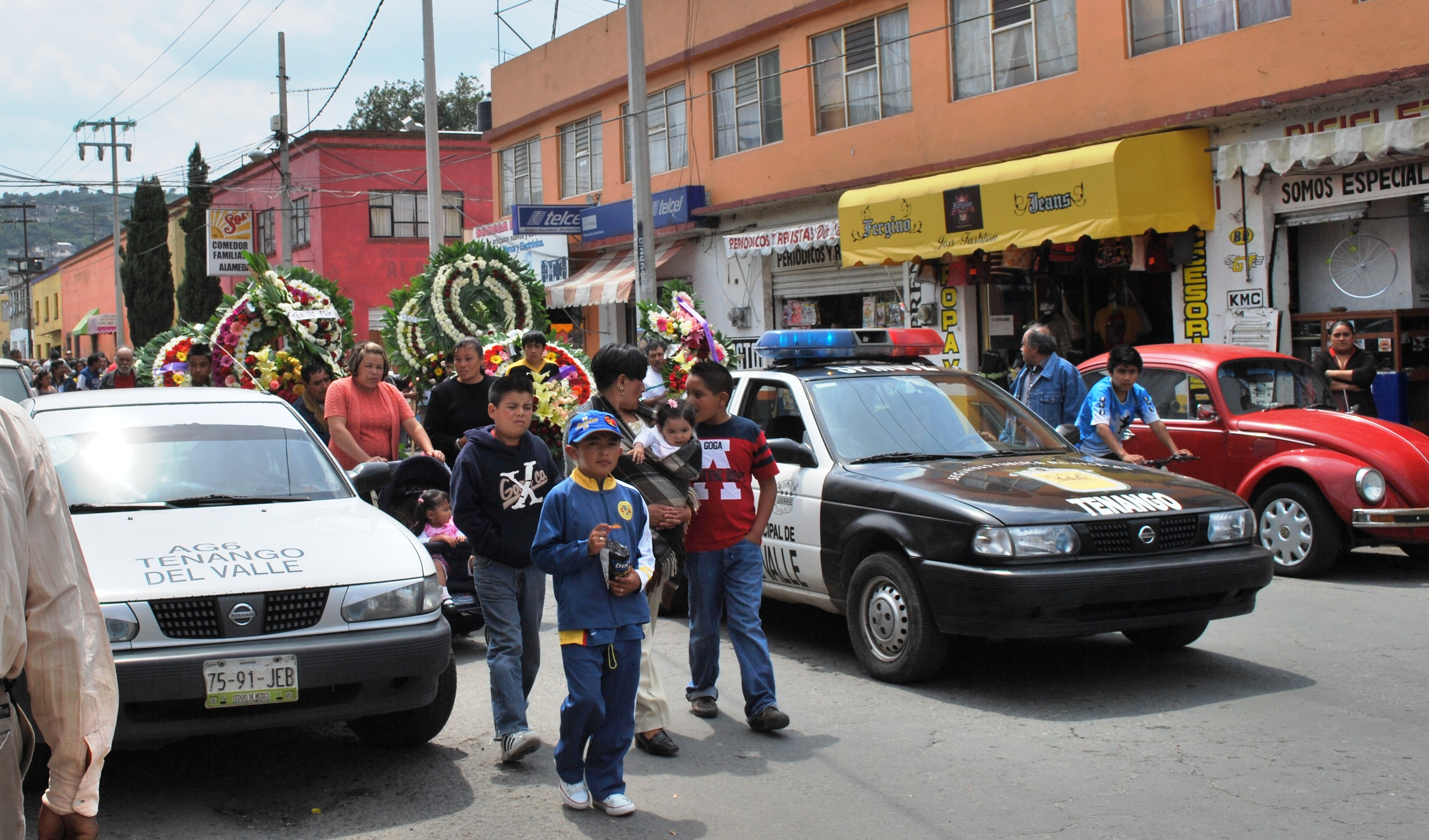 Head of a funeral procession in Tenango del Valle, Mexico State